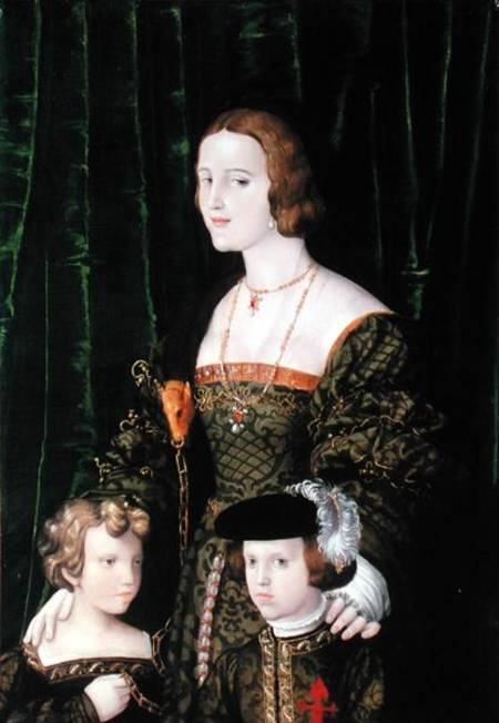 Joanna of Castille (the Mad) with her children.